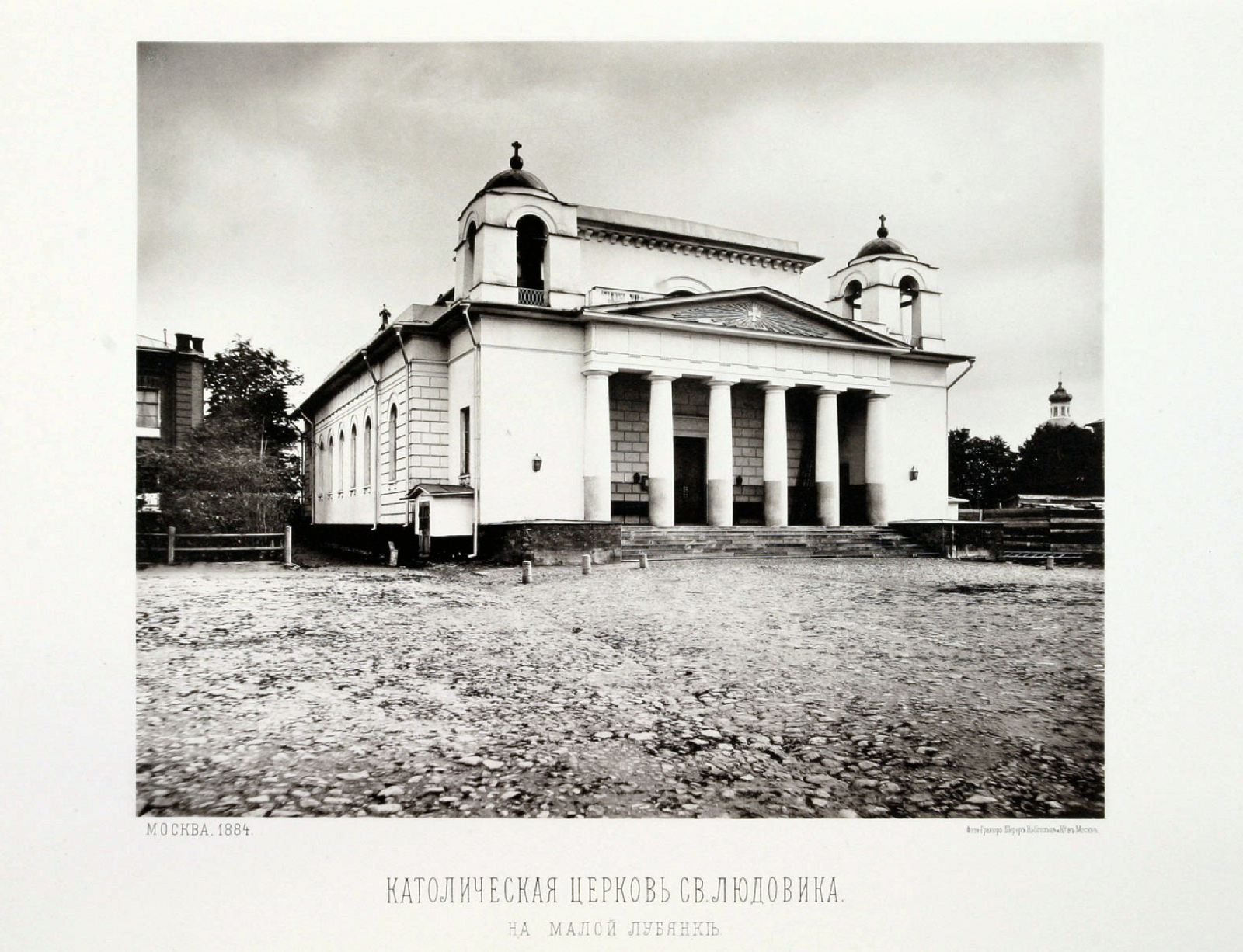 Plate 55: Catholic church of St. Louis, Moscow.